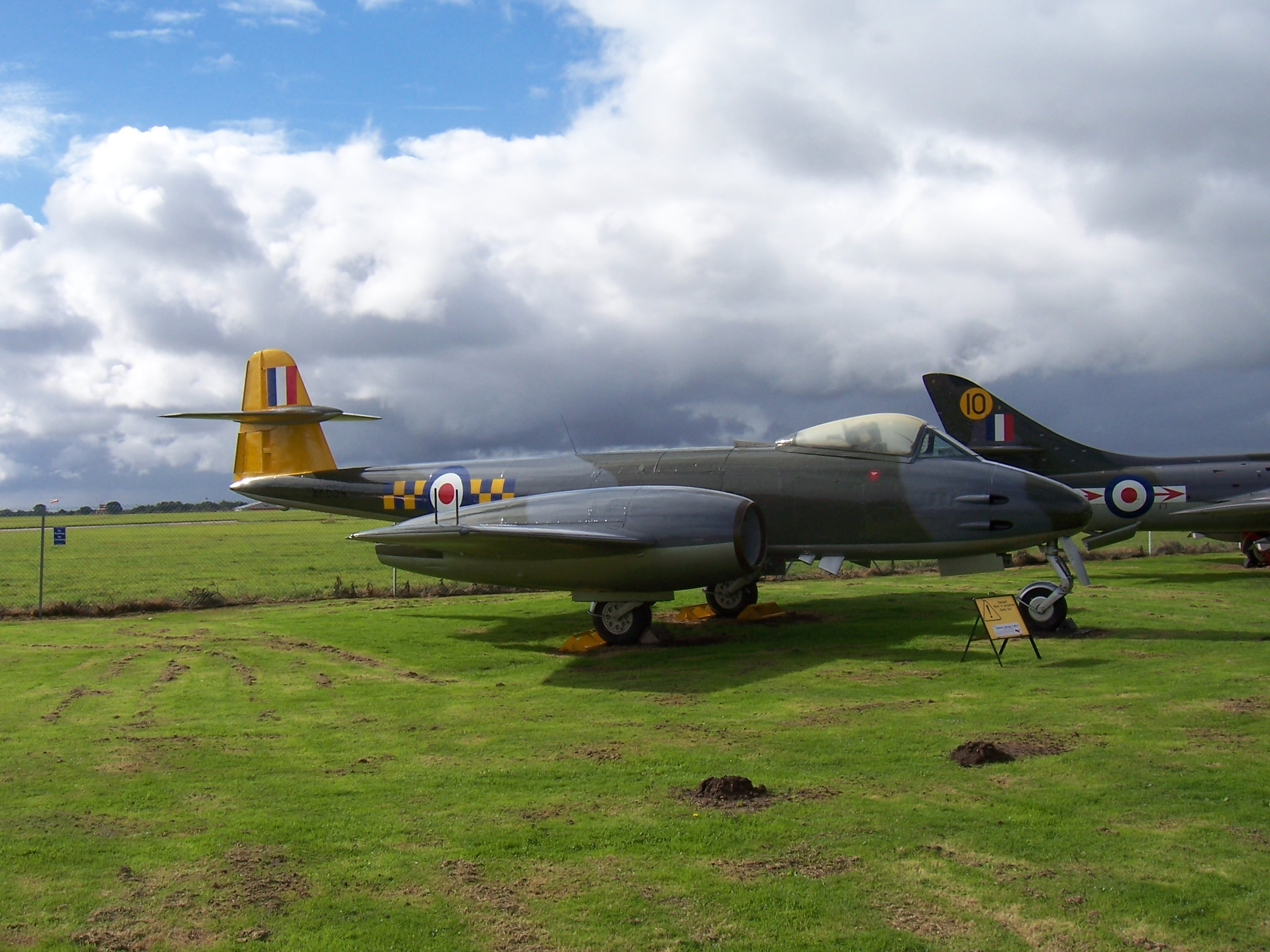 Gloster Meteor F8 WK654 preserved at the City of Norwich Aviation Museum